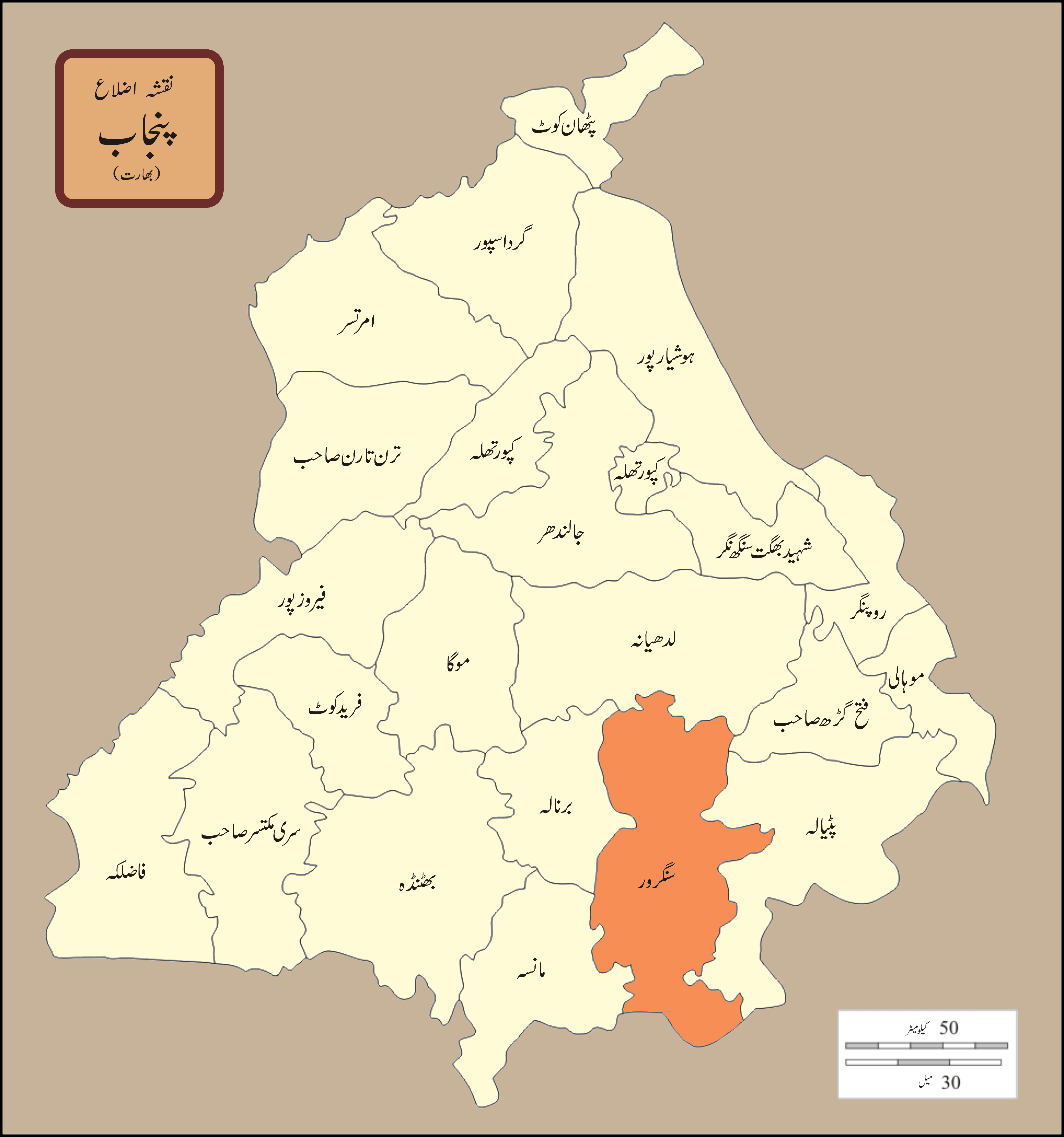 Punjab India Dist Sangrur (Urdu)